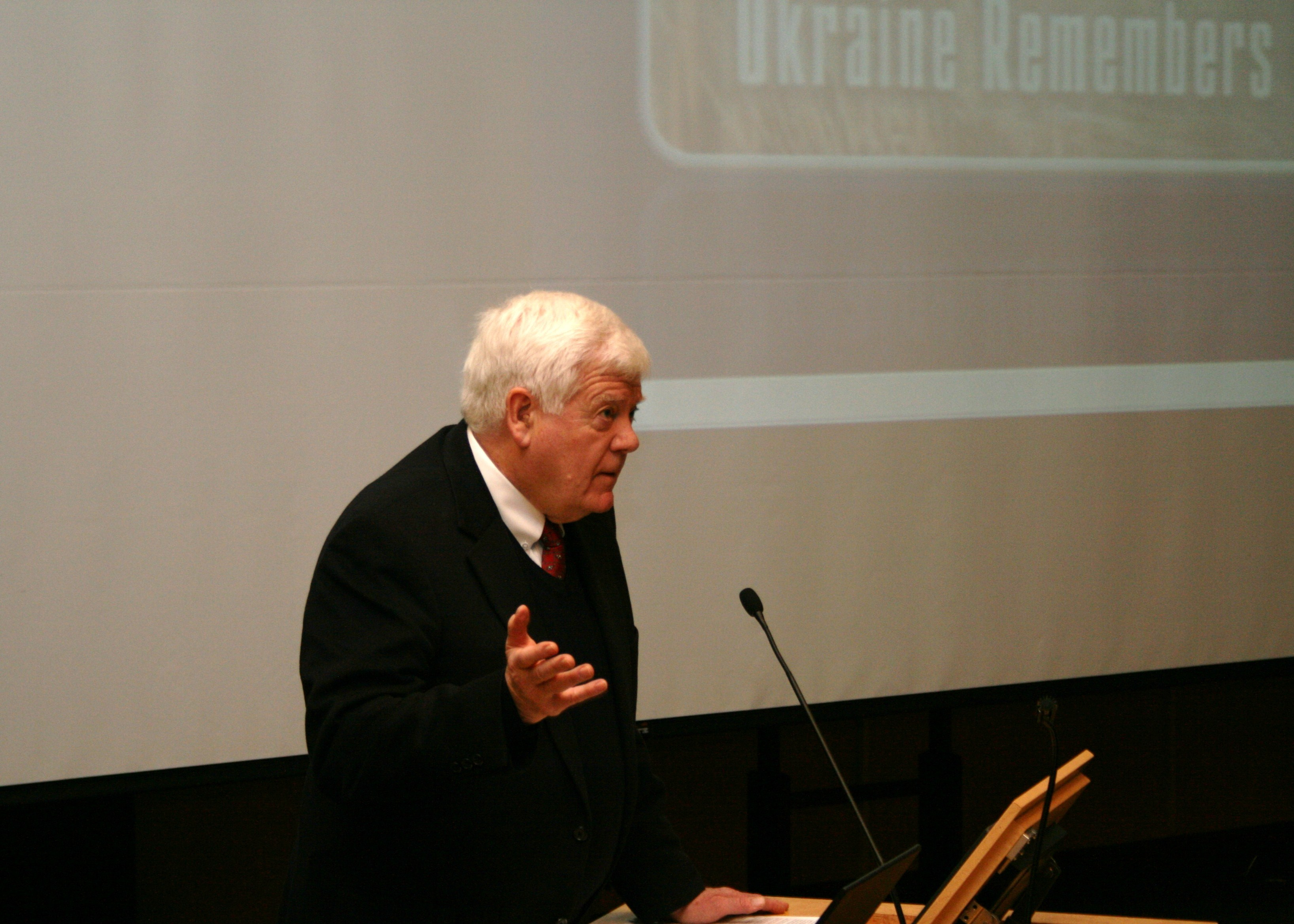 Representing the American side was U. S. Congressman Jim McDermott (D-7th District).